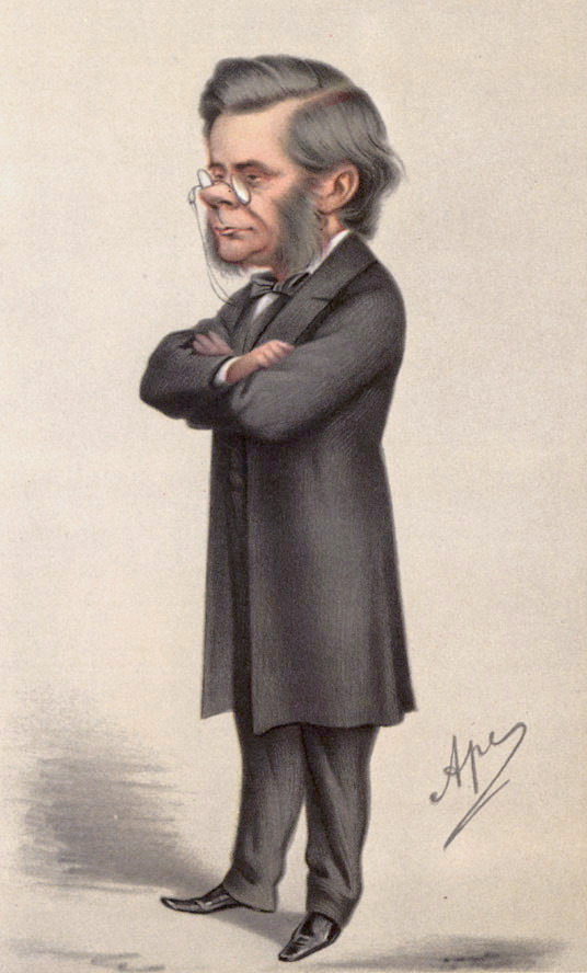 Caricature of T H Huxley. Caption read "A great Med'cine-Man among the Inqui-ring Redskins".